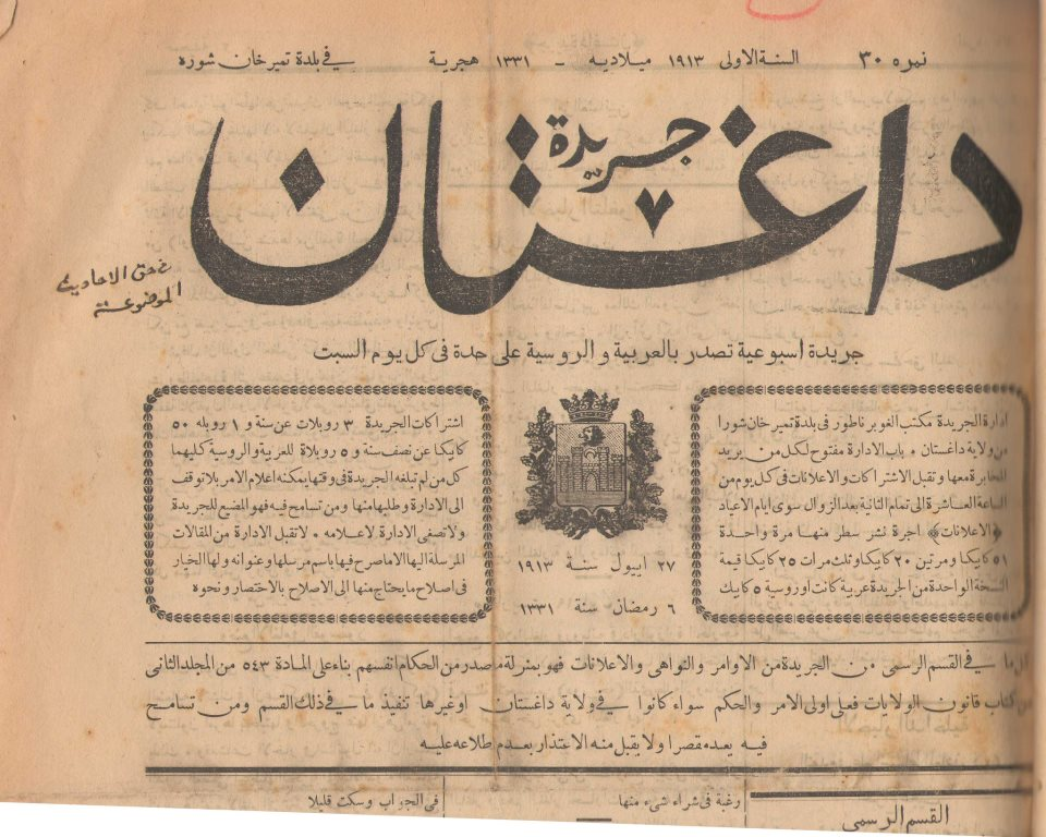 Newspaper "Jaridat Dagistan", published in Russian empire on arabic language